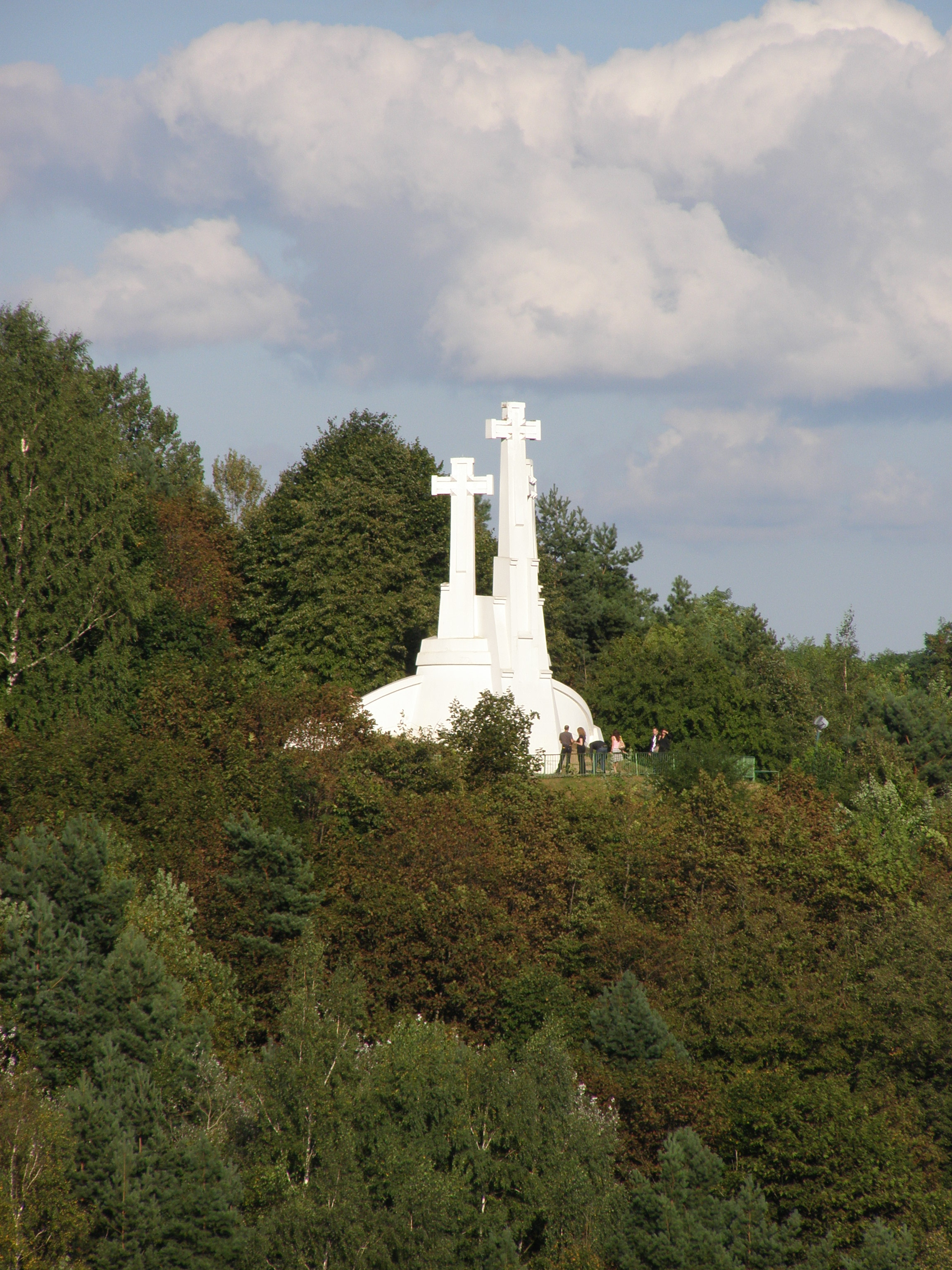 Three Crosses